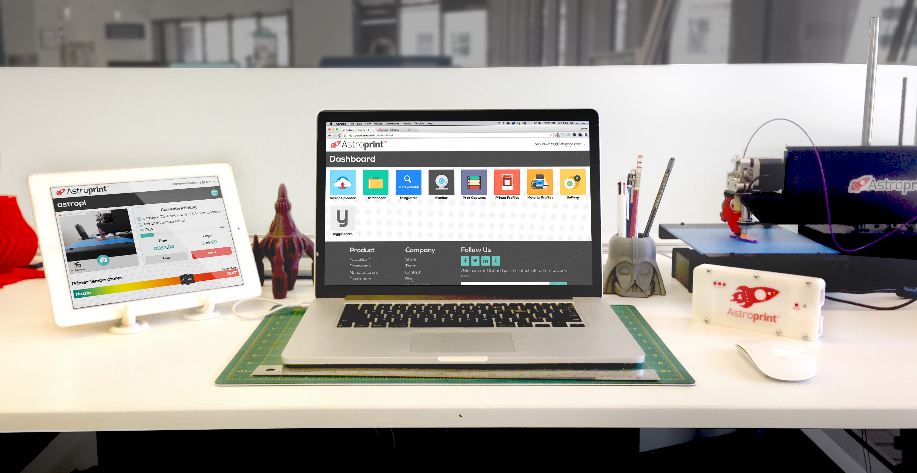 AstroPrint Cloud interface when managing a 3D Printer wirelessly.